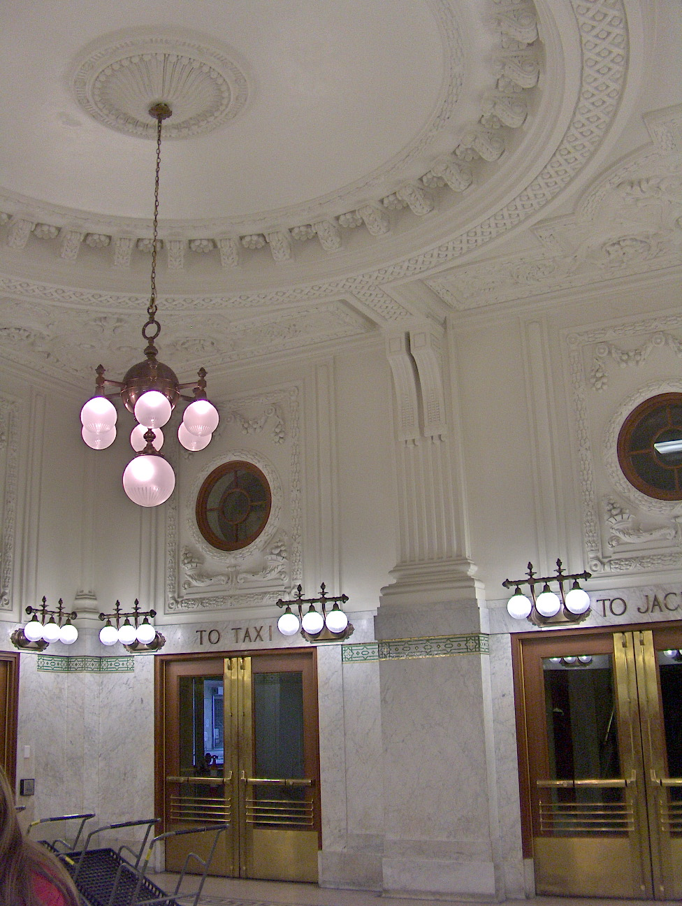 King Street Station Entry Lobby. Seattle WA